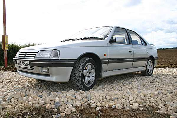 This picture shows a Peugeot 405 Mi16.